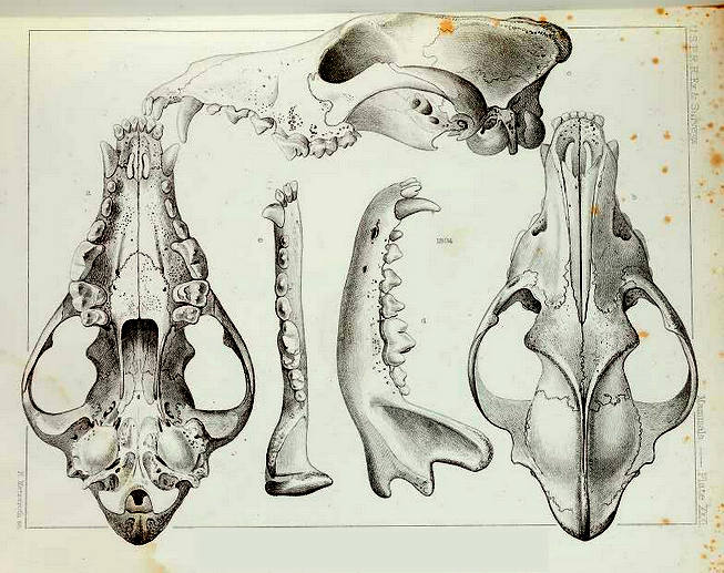 Eastern wolf skull from the Adirondac Mountains, New York.